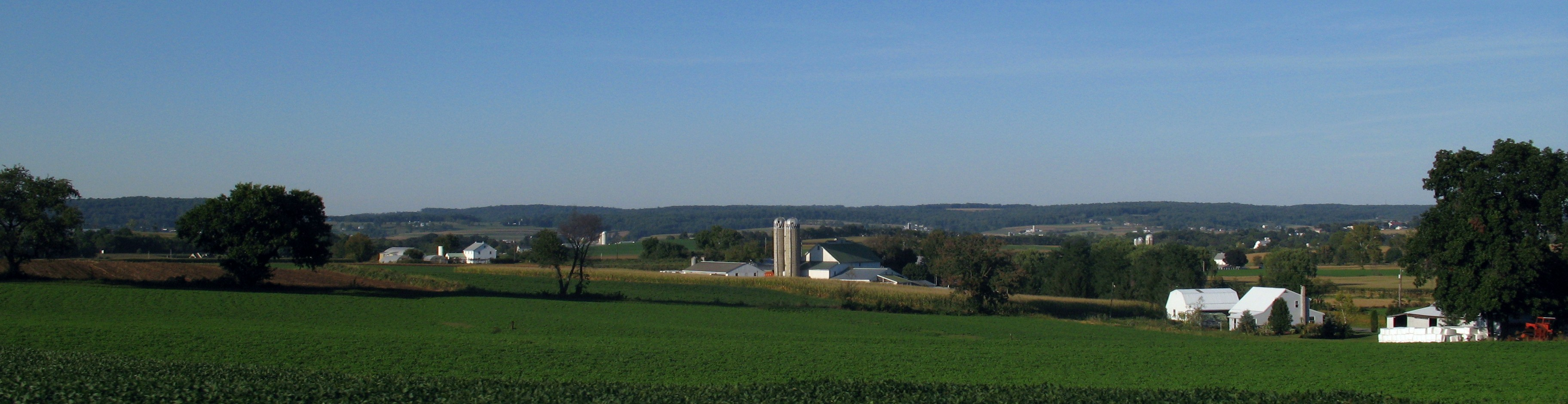 US 322 between Fetterville and Beartown, Pennsylvania